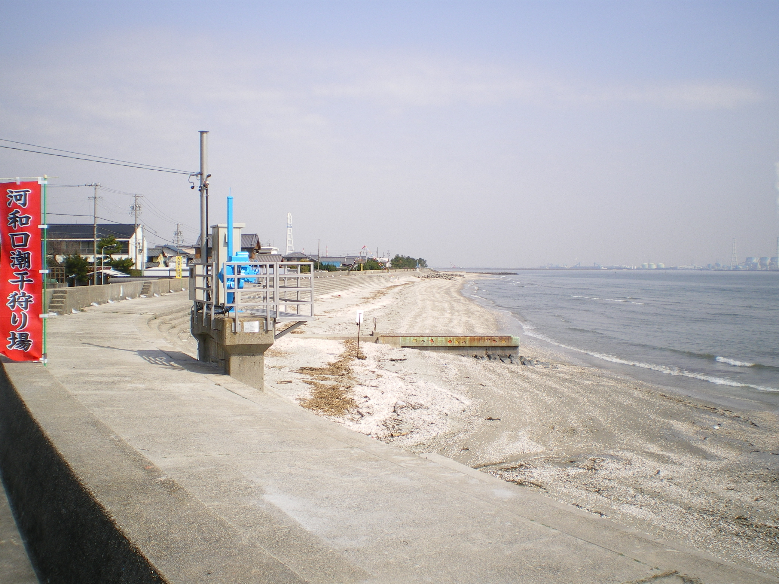 Kōwaguchi Clam digging spot